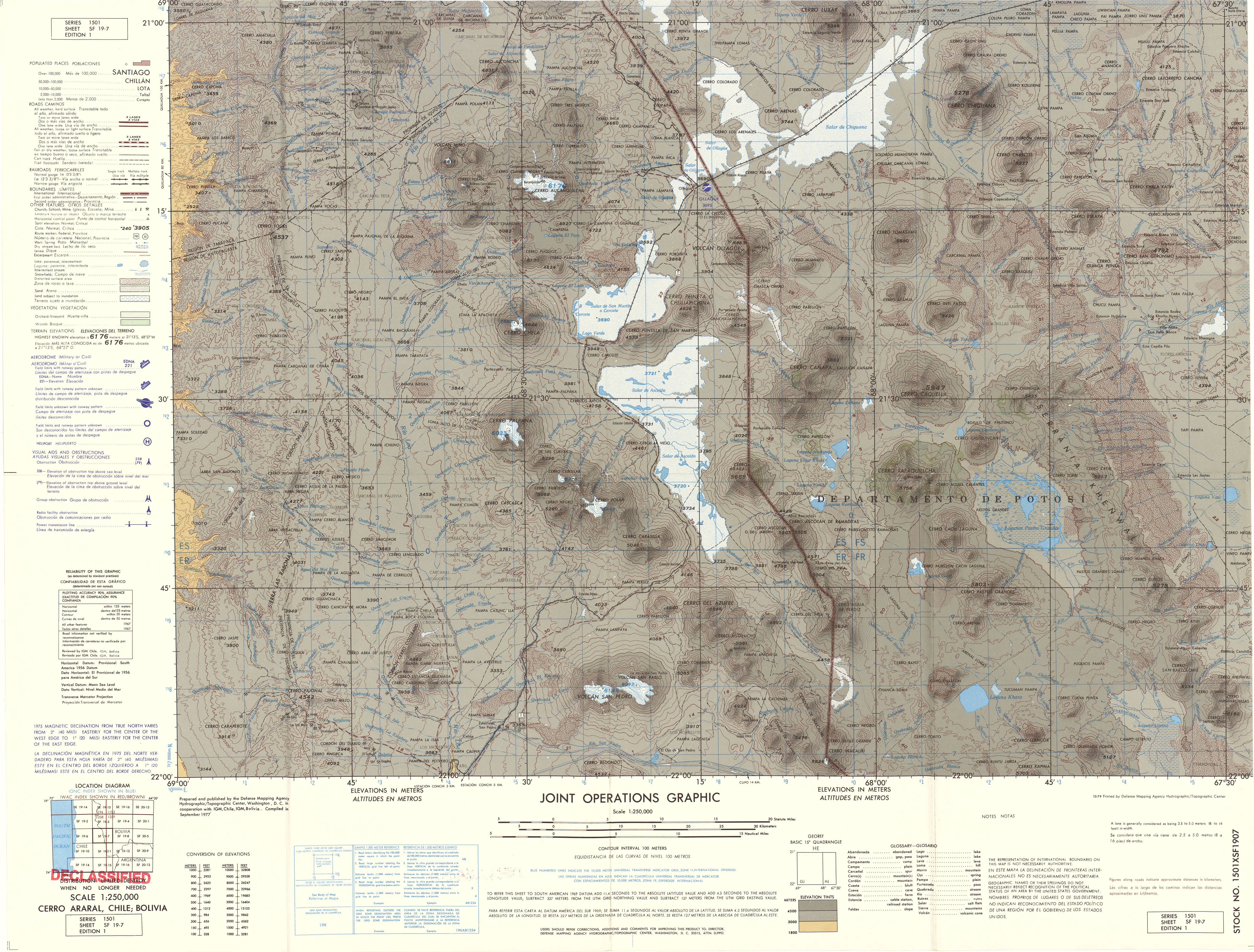 Frontera Chile-Bolivia, Volcan San Pedro, Volcan San Pablo